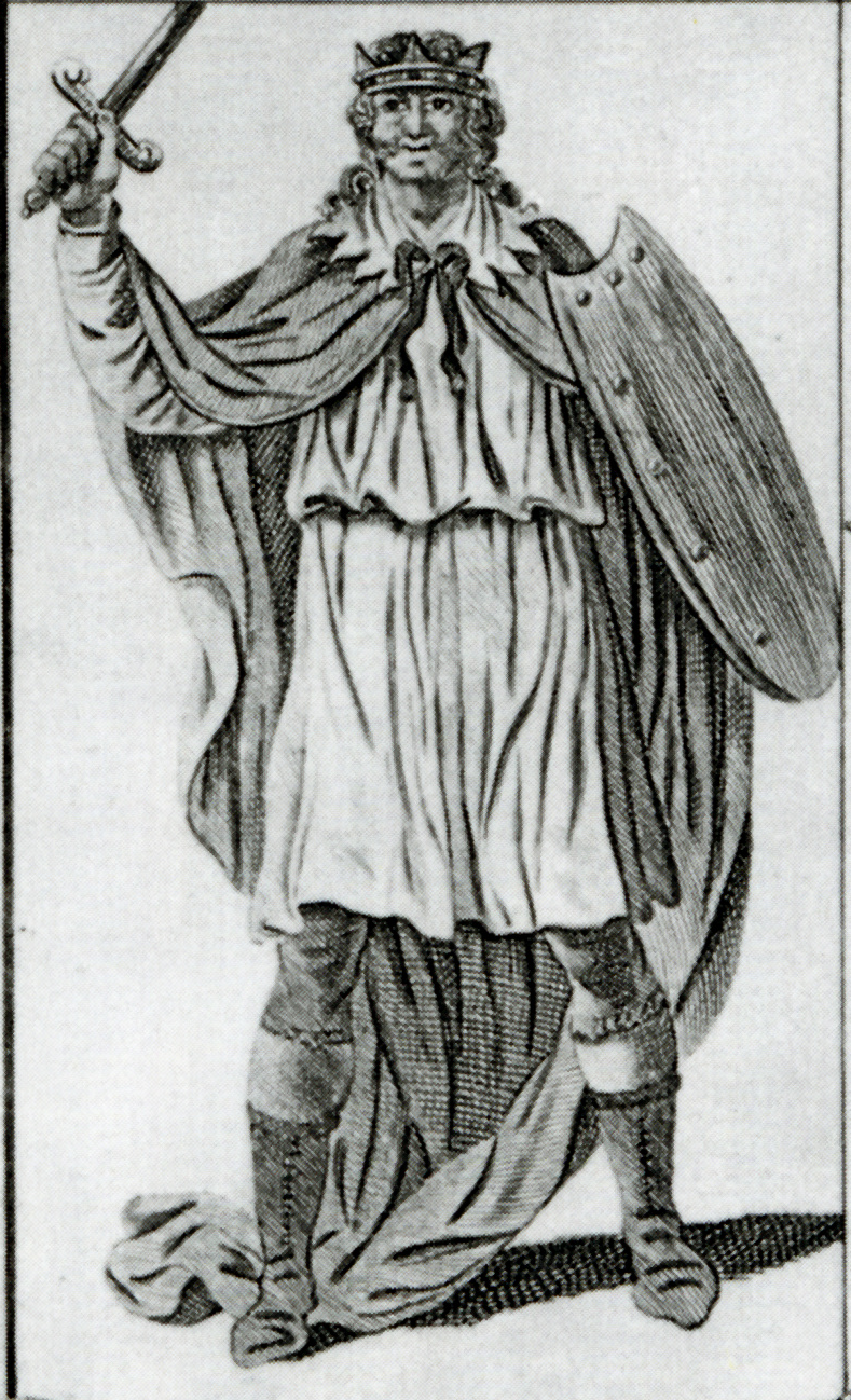 Eighteenth-century engraving of the early English king Eadred. National Potrait Gallery (ER14678), National Portrait Gallery: NPG D8867